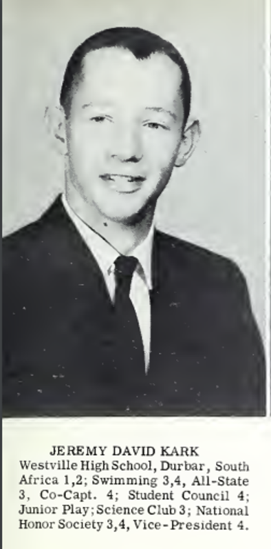 A picture of Jeremy David Kark in Chapel Hill High School's Yearbook from 1960.